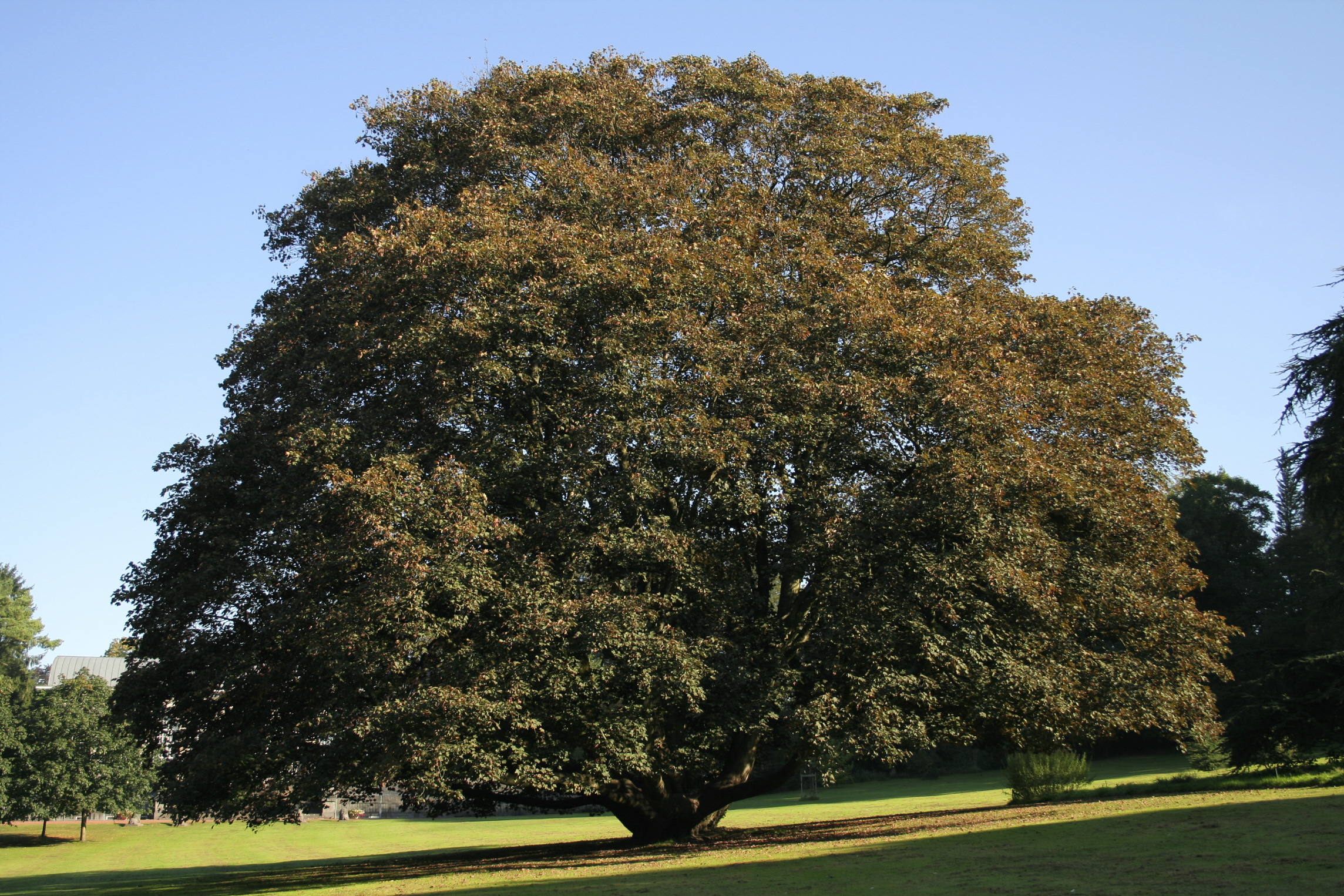 Red Sycamore Maple.